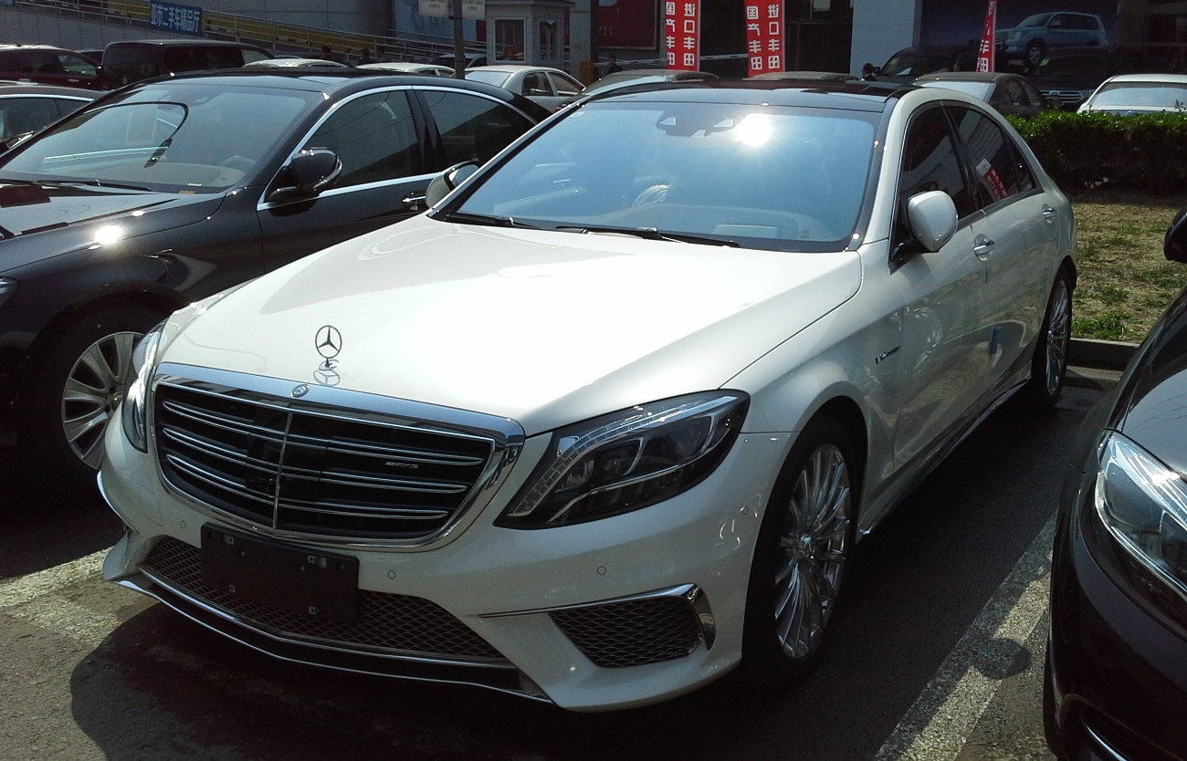 Mercedes-Benz S-Class V222 65 AMG photographed in Beijing, China.